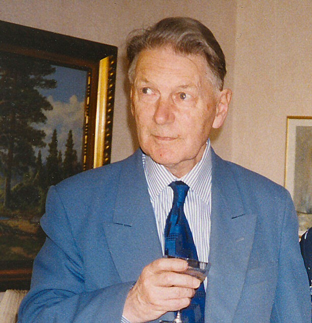 Portrait of Paul Britten Austin ca 1980